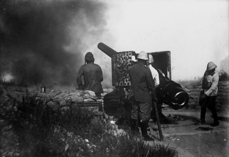 A Turkish Krupp 15cm S.K. L/40 shelling british observation post "Mavro" on "rabbit island" at the Dardanelles entrance